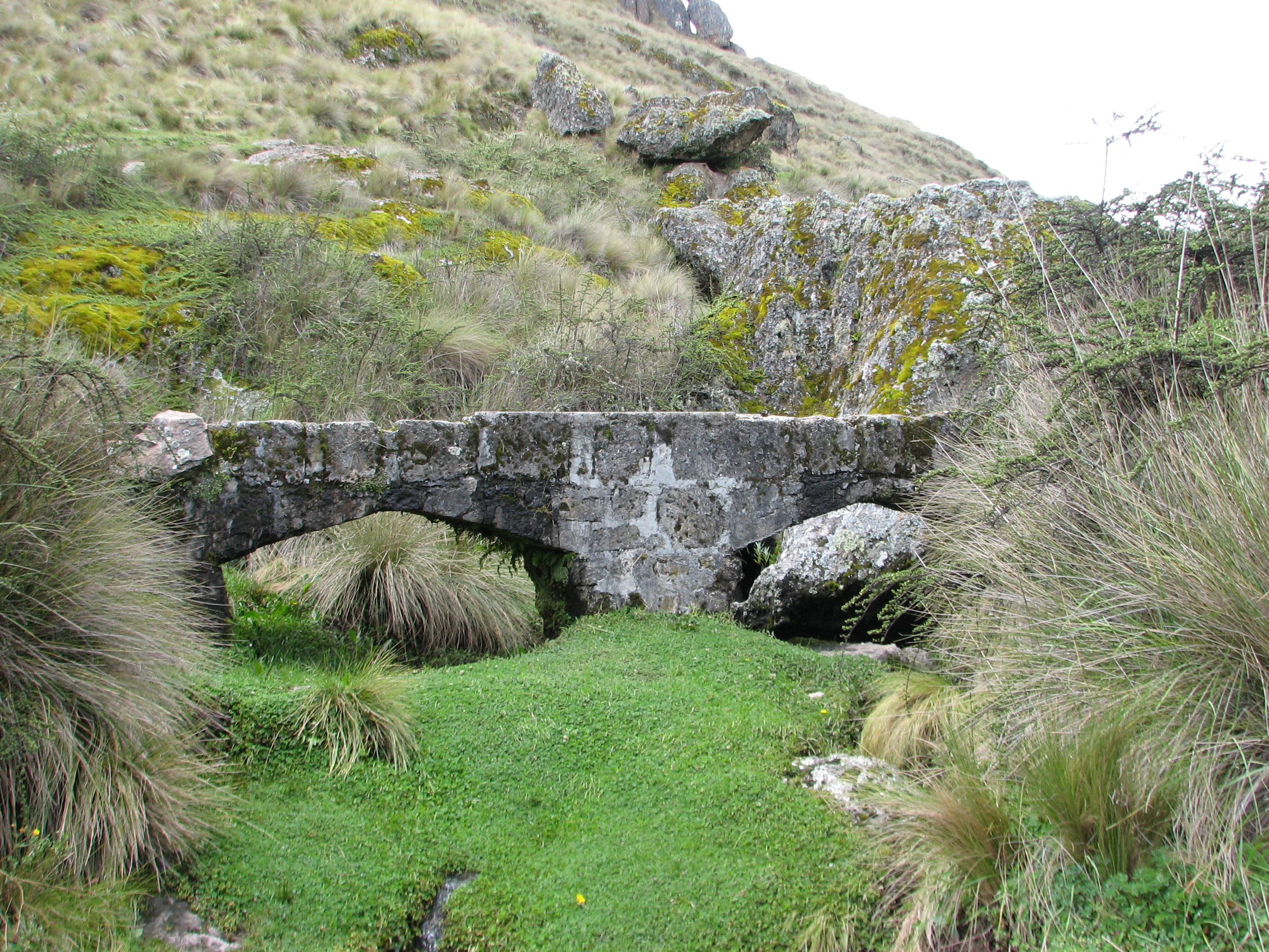 Cumbe Mayo Archaeological site (bridge)